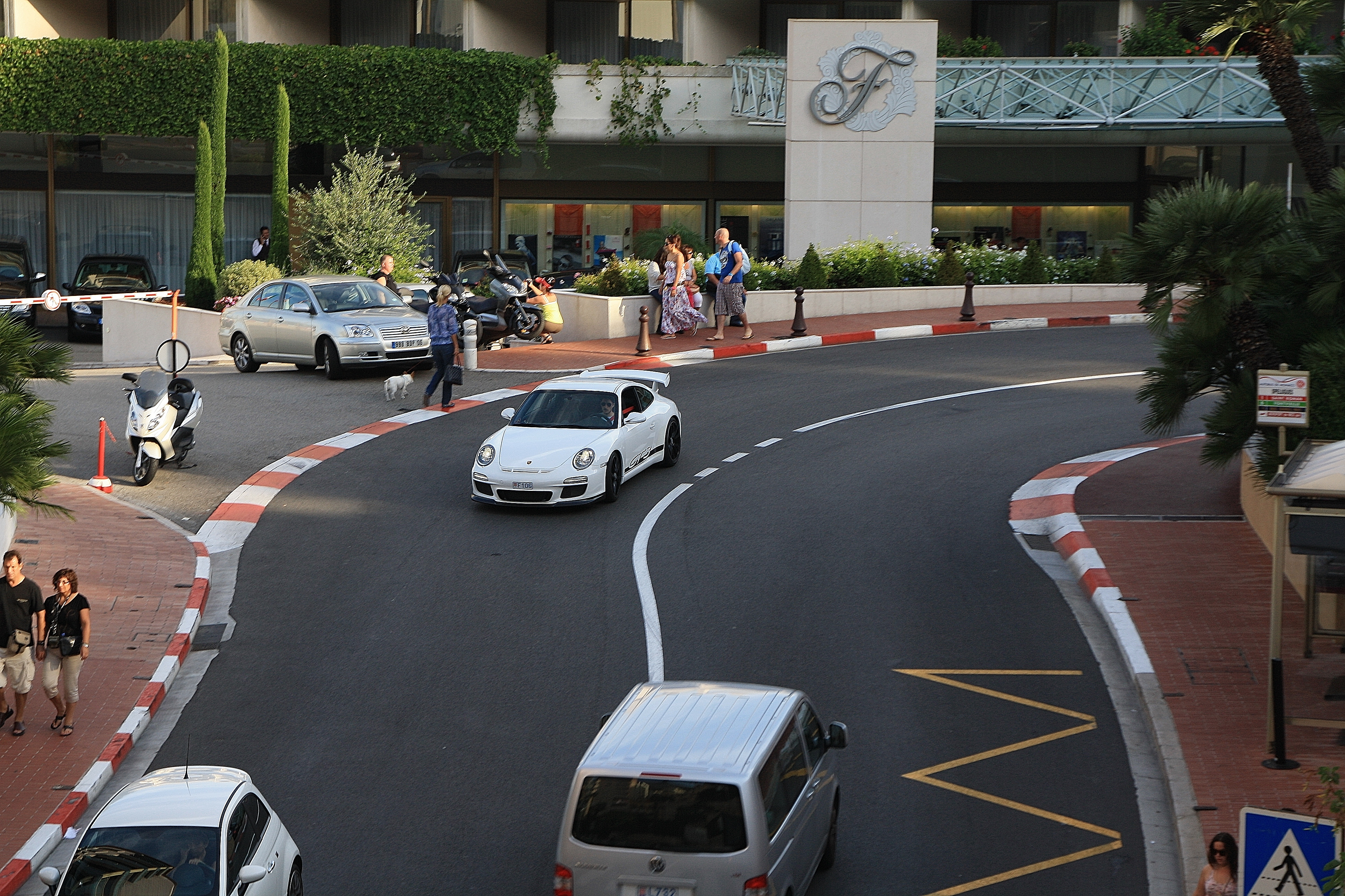 White 2009 Porsche 997 GT3 at Loews Hairpin, Monte Carlo, Monaco.Porsche 911 GT3 at Loews Hairpin, Monte Carlo